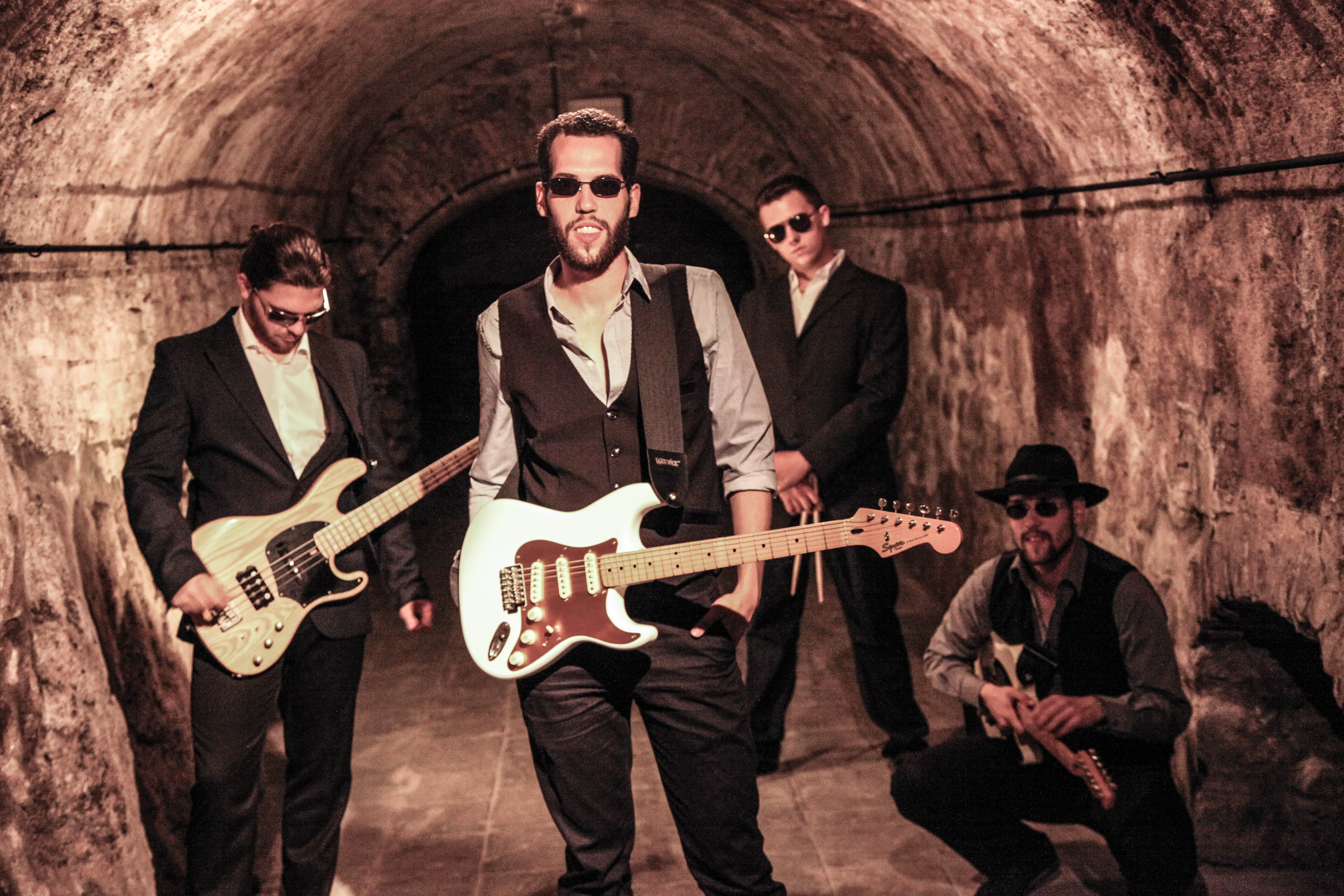 The Butchers promo photo in 2014-2015. Tomi Bartha, András Hushegyi, Ladislav Šebo and János Hushegyi